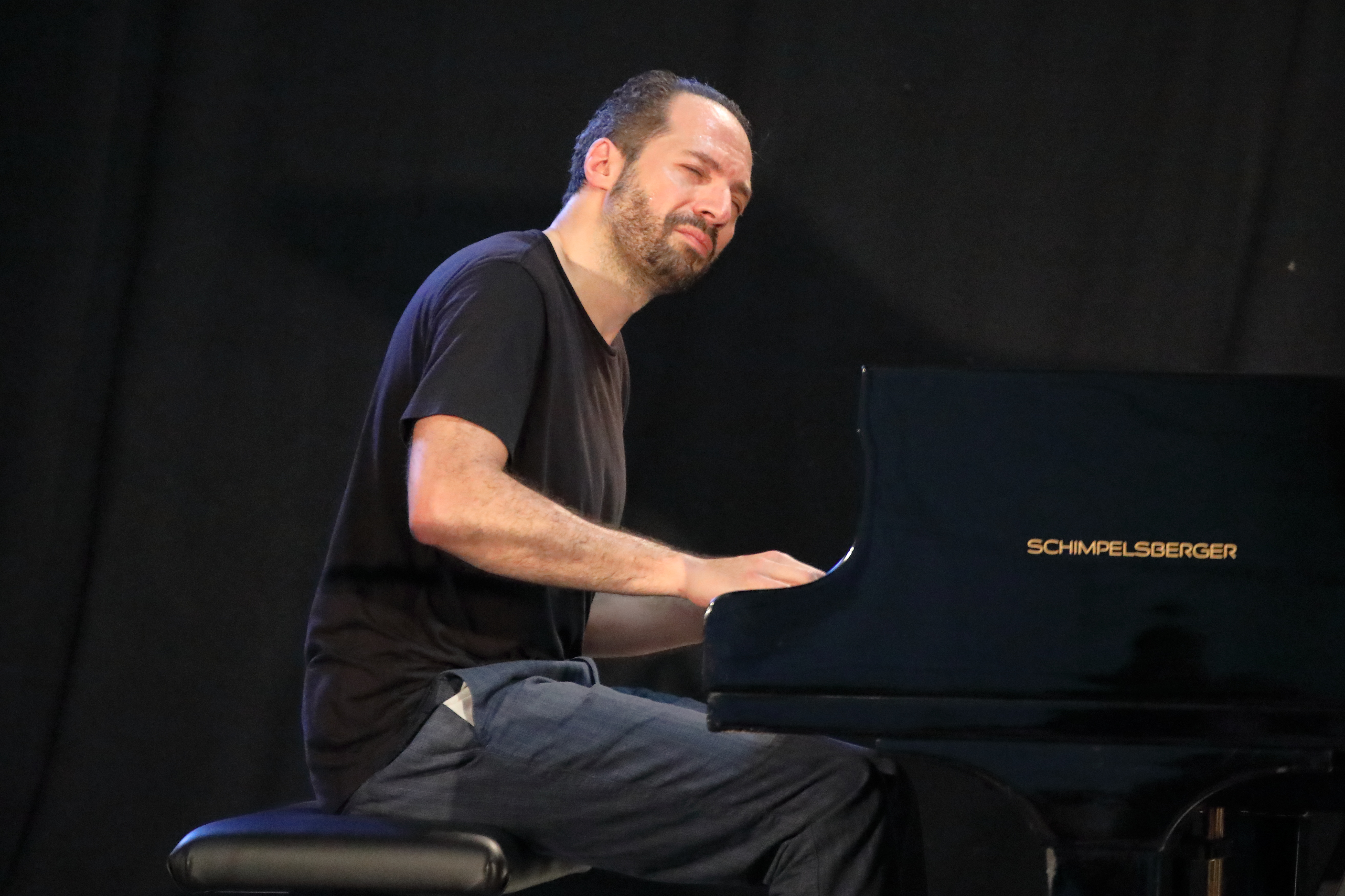 Pianist Brian Marsella from the US at INNtöne Jazzfestival 2019.